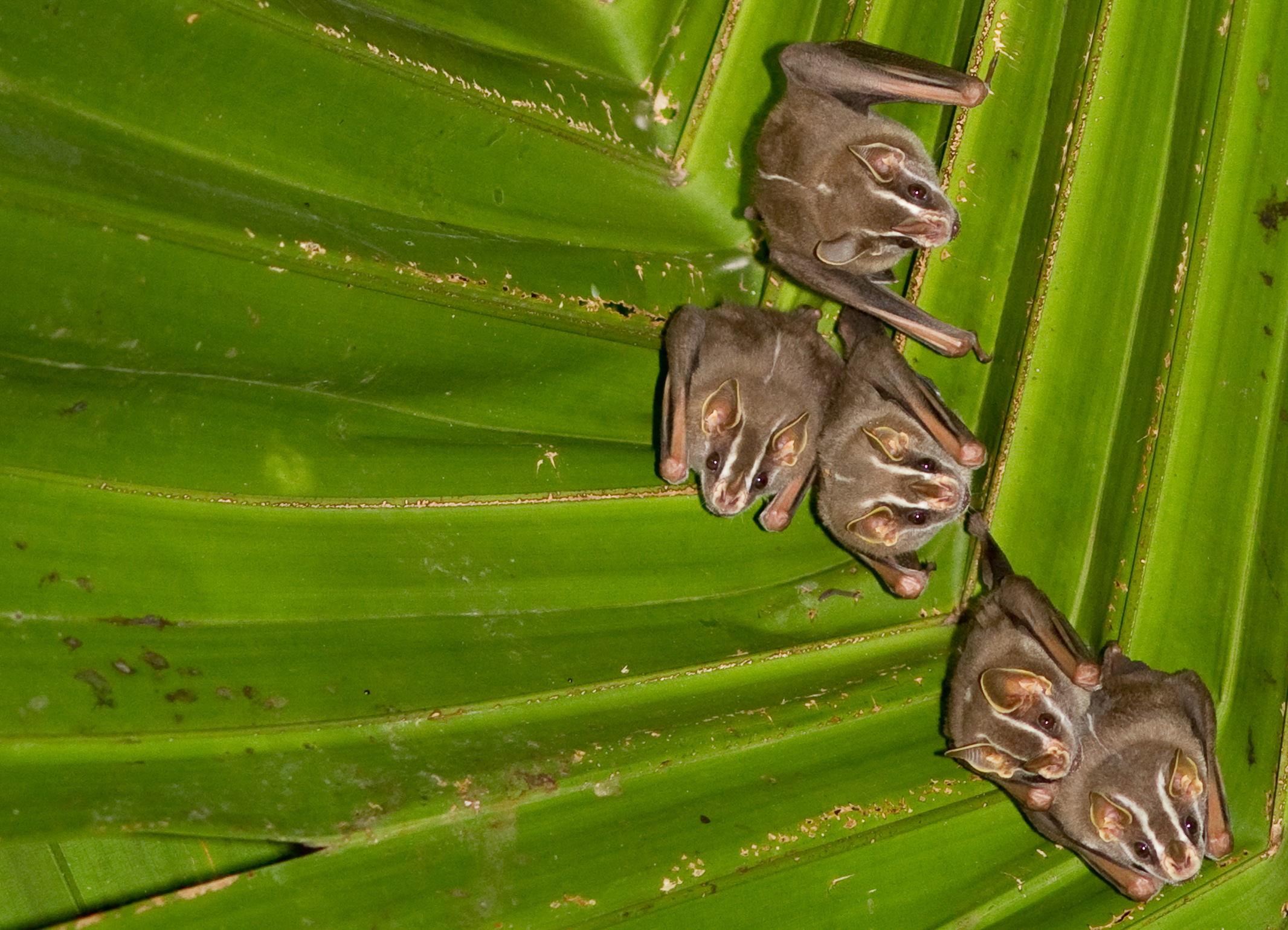 Tent-making Bat Uroderma bilobatum, Gamboa, Panama